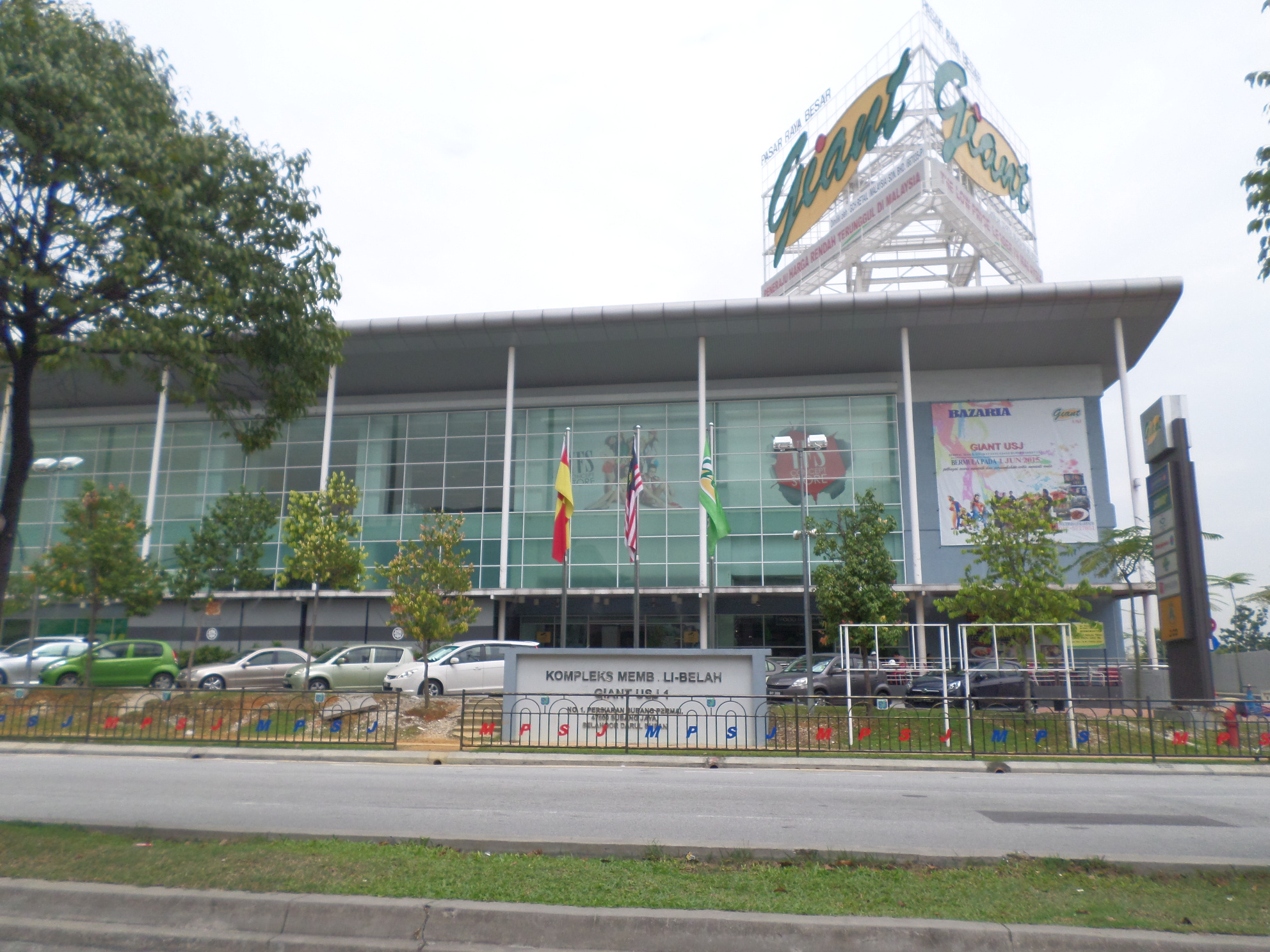 Giant USJ 1, Subang Jaya, Petaling, Selangor, Malaysia